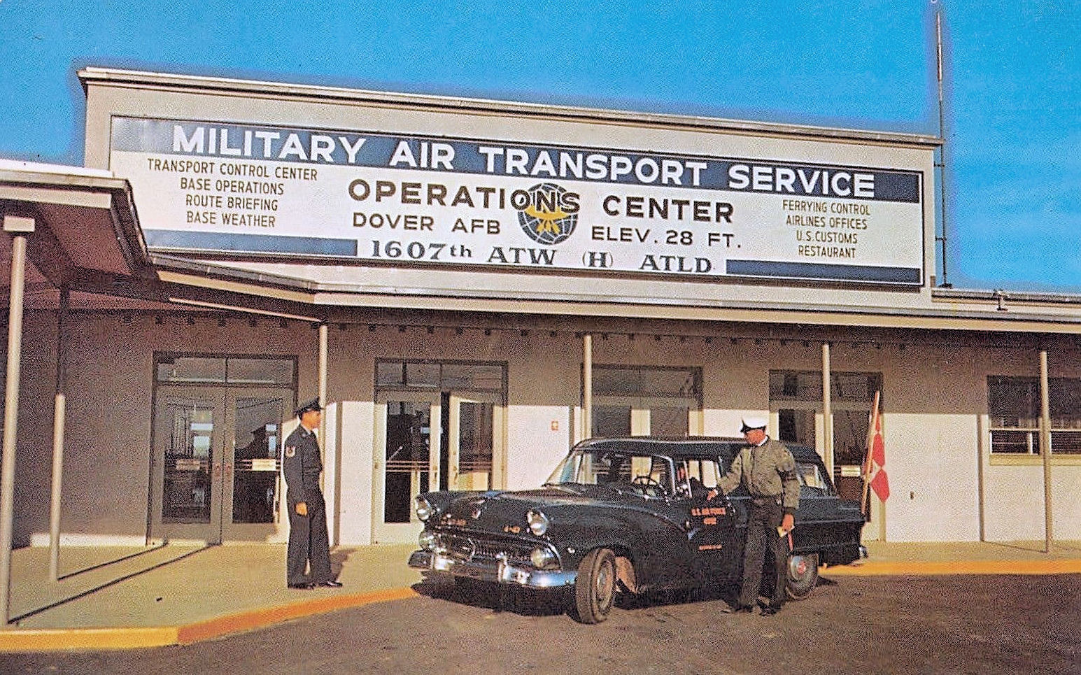 Dover Air Force Base - MATS Aireal Port Operations Center